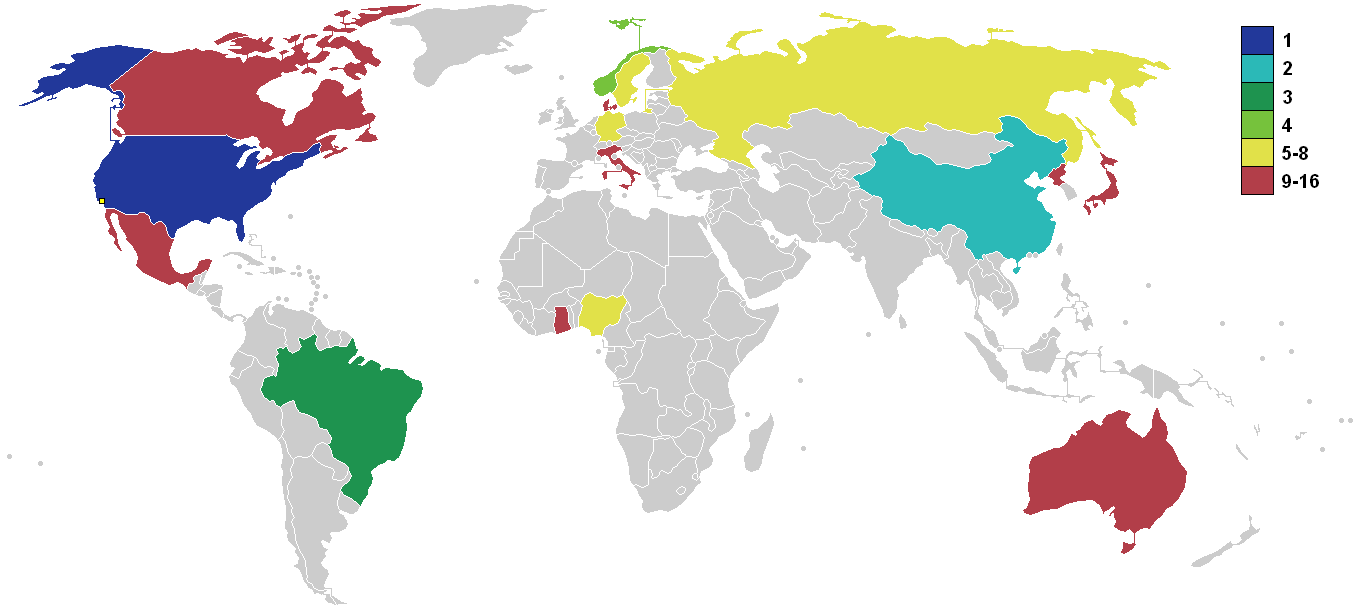 Final rankings of the teams in the 1999 FIFA Womens World Cup, showing: winner = dark blue runner-up = light blue third = dark green fourth = light green quarterfinals = yellow group stage = red yellow square = host nation (United States)